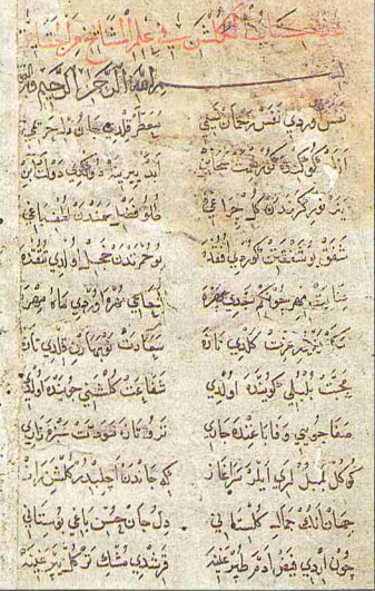 XV century Azeri translation of great Persian work Gulshan-i Raz. second page.